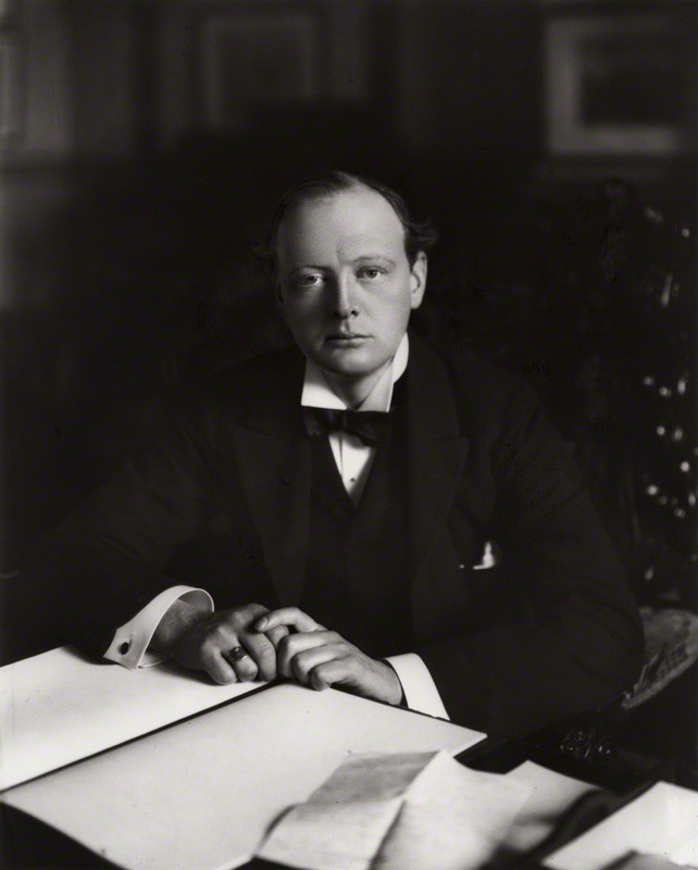 by Bassano Ltd, whole-plate glass negative, 20 April 1911